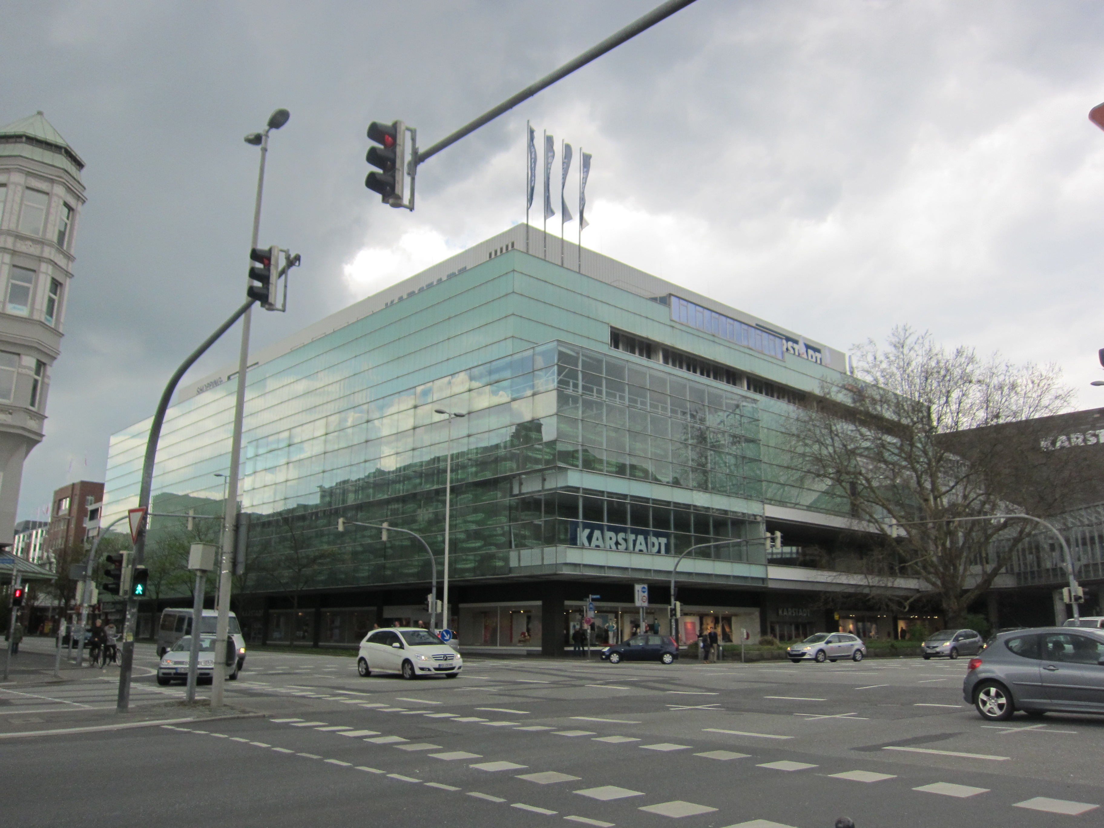 Karstadt in Kiel-Vorstadt